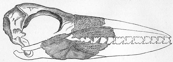 Fig. 227.—Skull of Odontopteryx toliapicus Odontopteryx toliapica restored. (After Owen.)